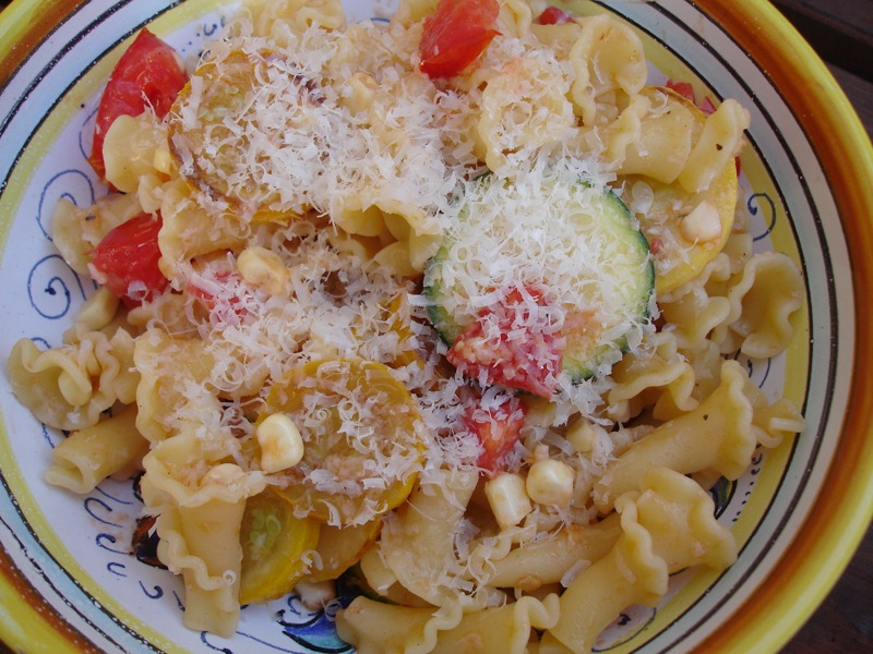 corn, tomatoes, sauteed summer squash, topped with shaved parmigiano reggiano. served in a deruta bowl.